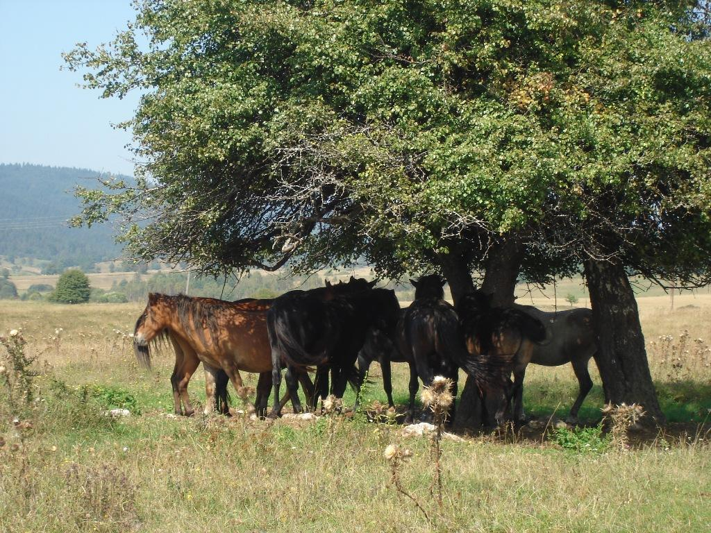 Bosnian Pony